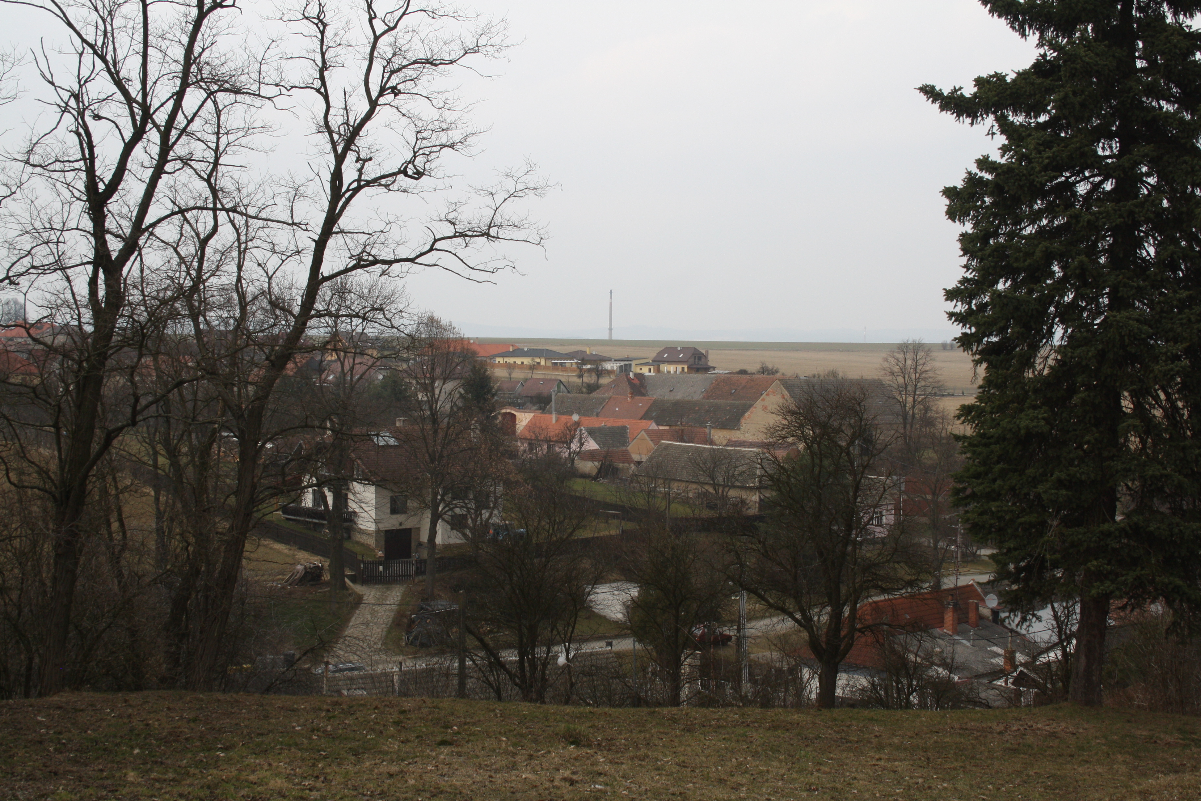 Overview of Střítež, taken from Saint Mark church.